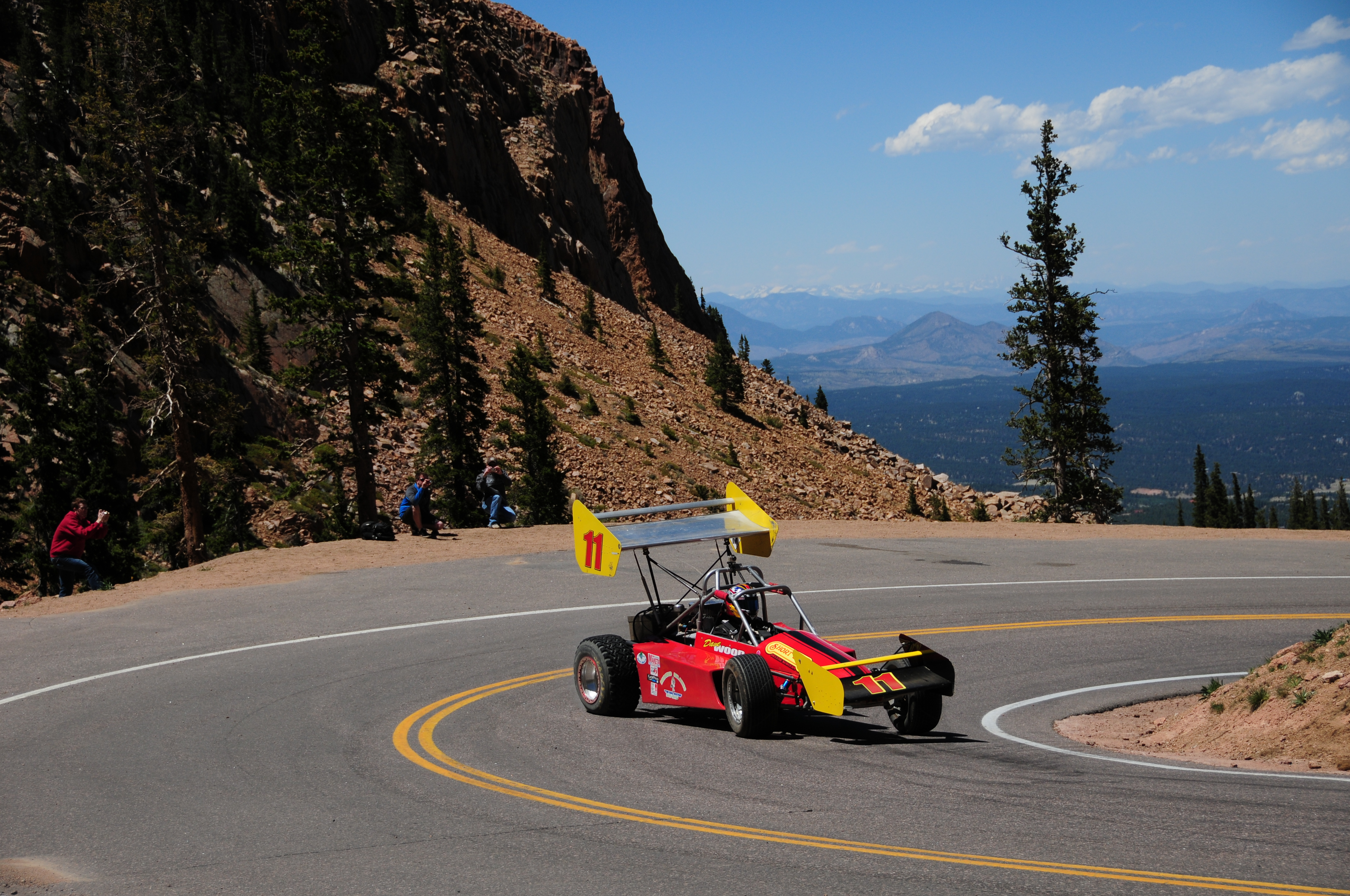 Dave Wood in his number 11 Wells Coyote at the 2011 Pikes Peak Hillclimb.